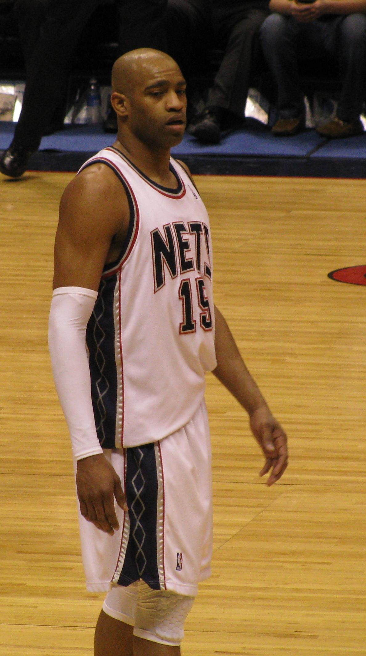 Vince Carter playing with the New Jersey Nets